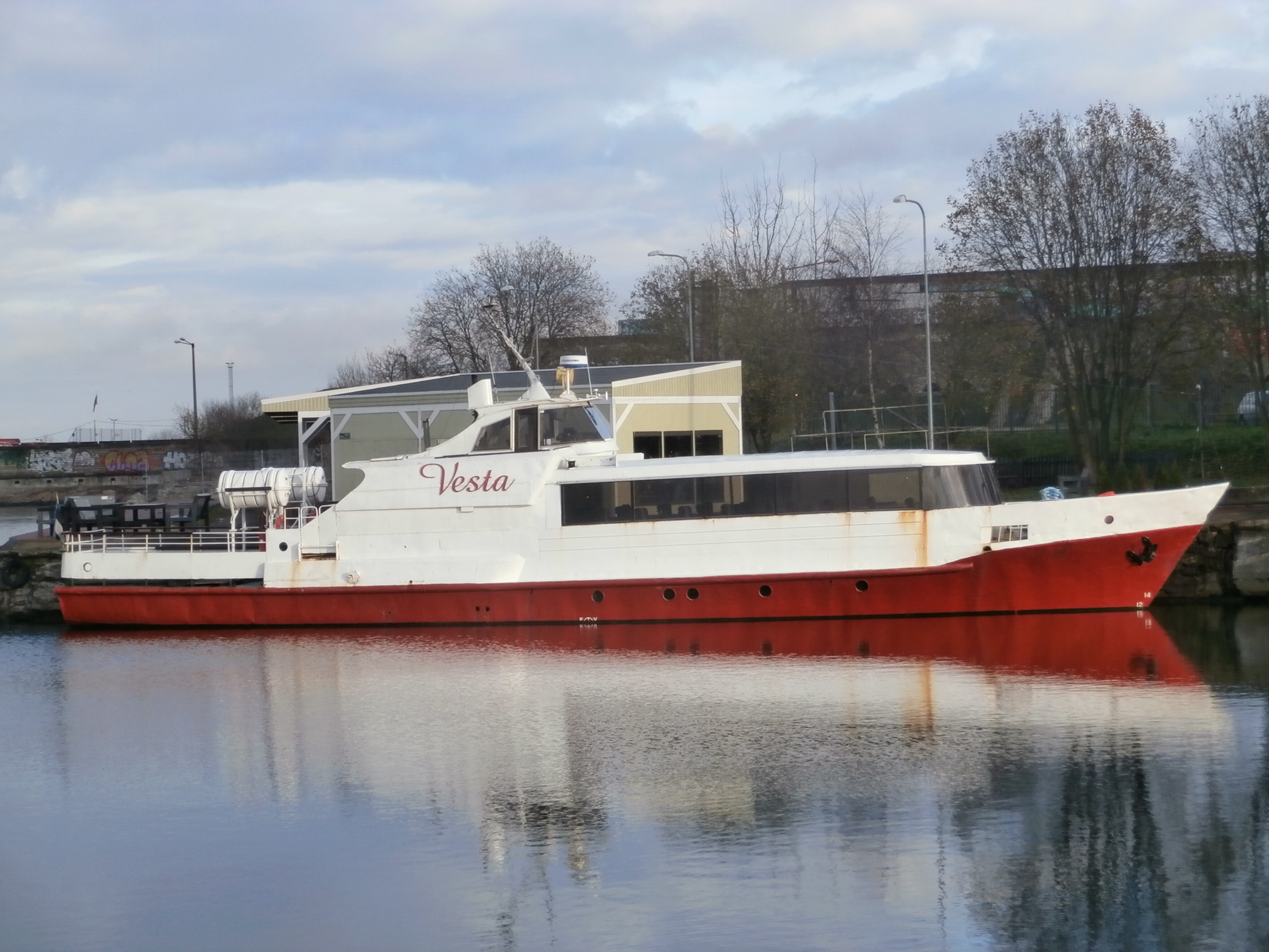 Passenger ship Vesta Starboard Side Tallinn 7 November 2013